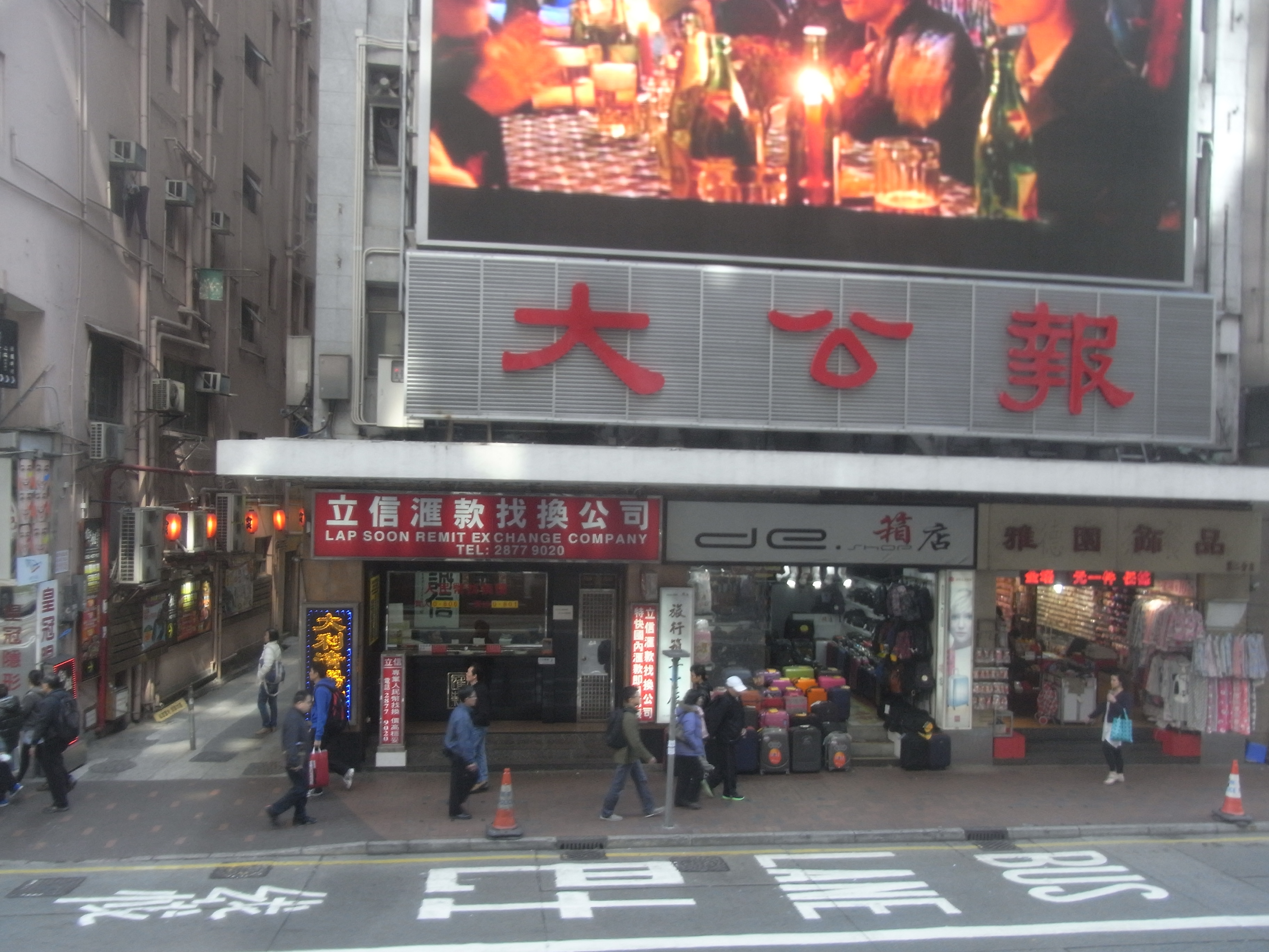 Hong Kong Tram tour view Wan Chai District in Jan-2013